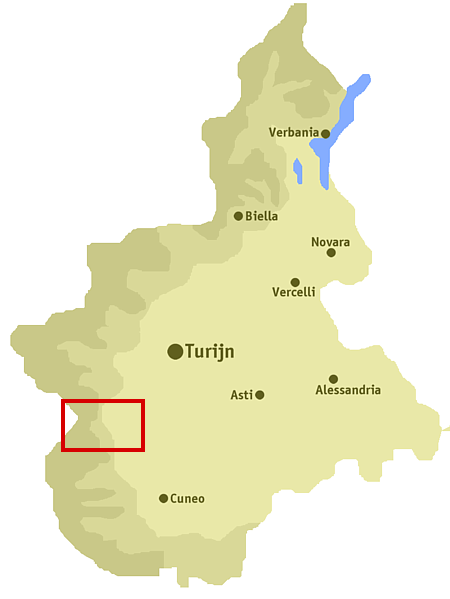 Position of the valley Valle Po